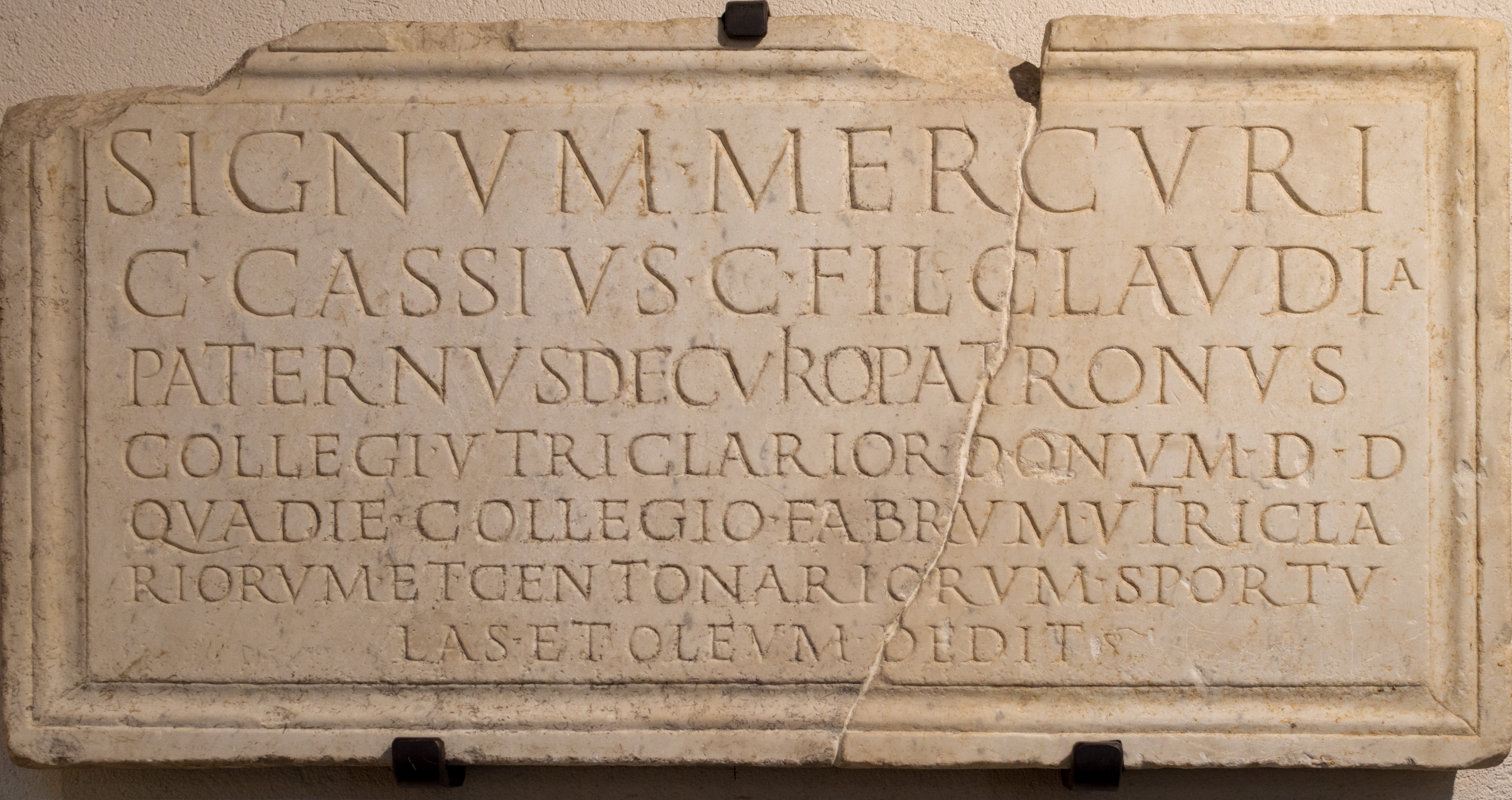 Dedication. Text set in capitalis monumentalis.